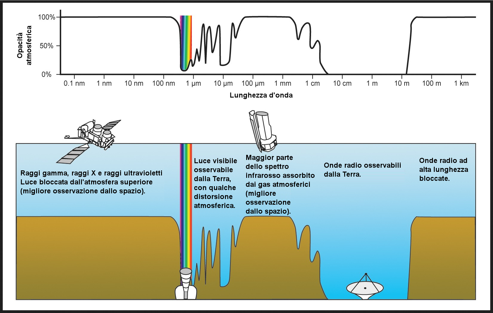 This picture is a derivate work from Image:Atmospheric electromagnetic transmittance or opacity.jpg, with texts rewritten in italian.